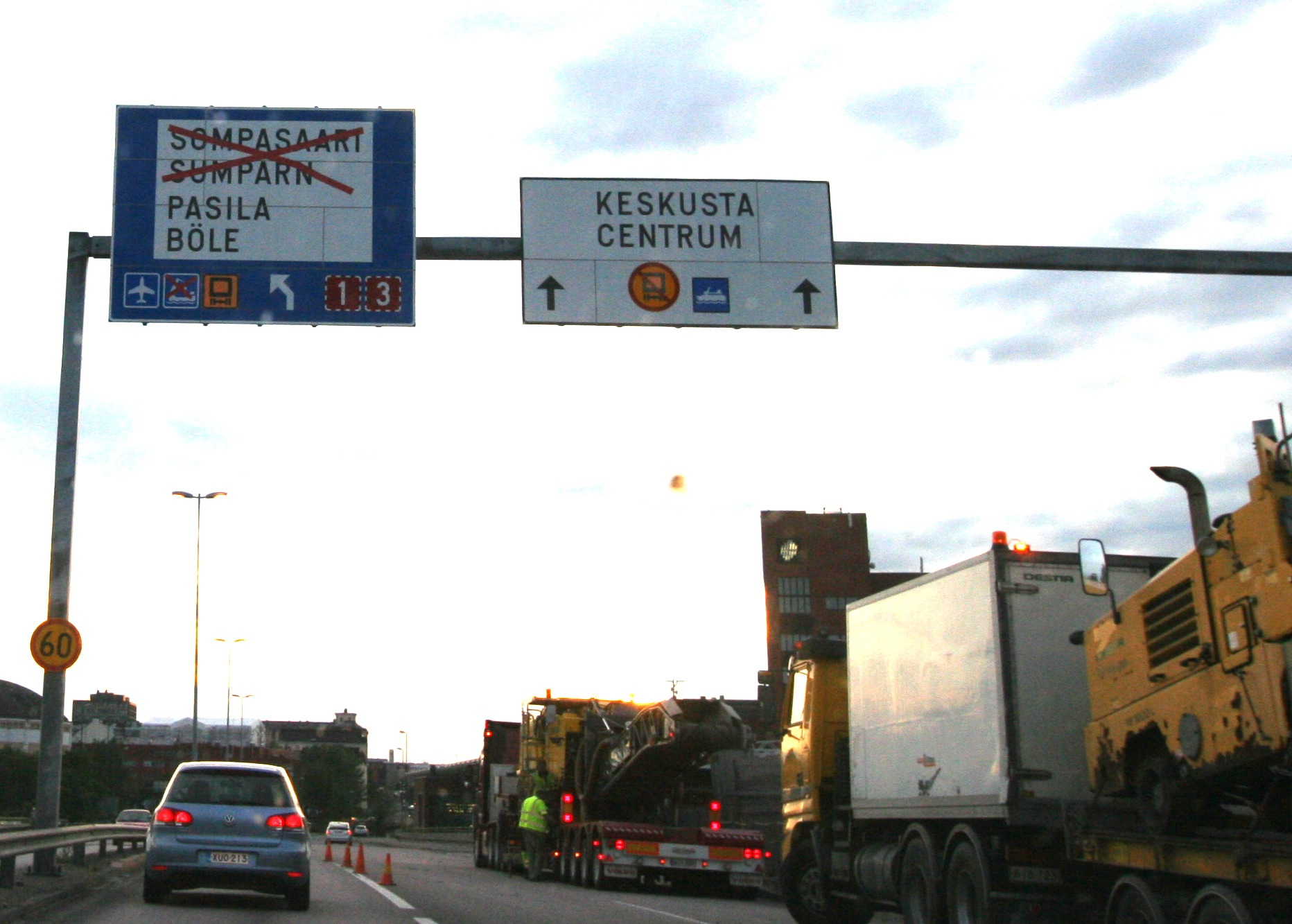 Crossed signs showing roads to Sompasaari harbour - no more in use